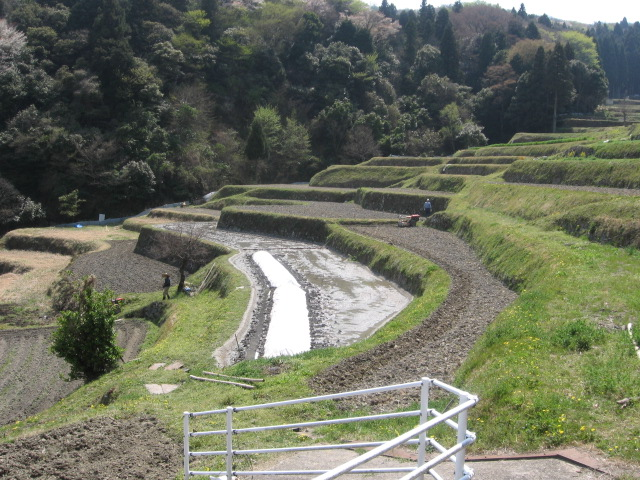 A view of rice terraces at Nishihata,Ikoma-shi,Japan.